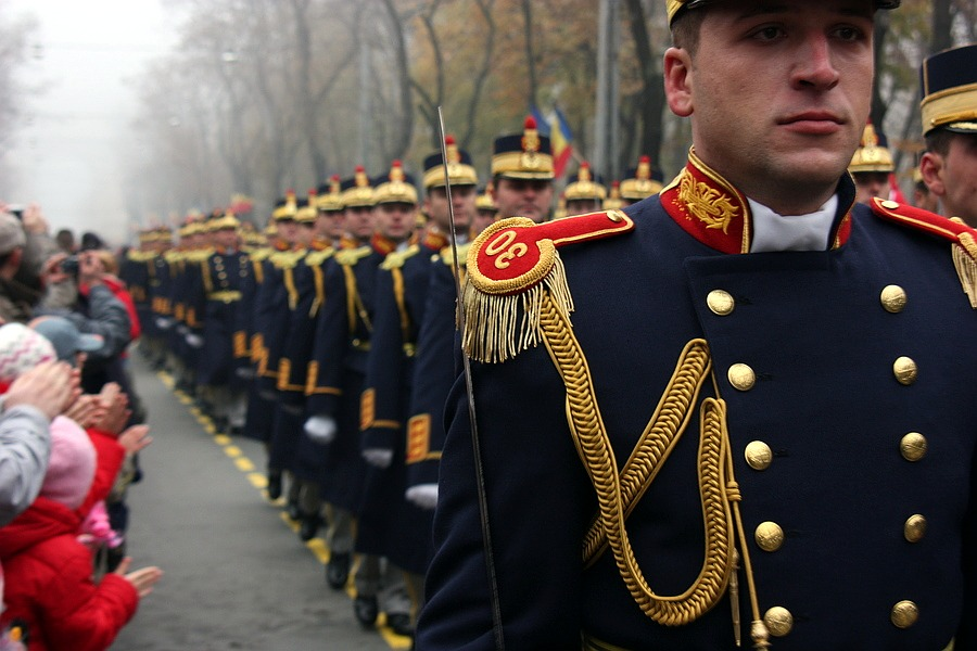 Soldiers on the Romanian National Day parade on December 1st, at the Triumph Arch in Bucharest.